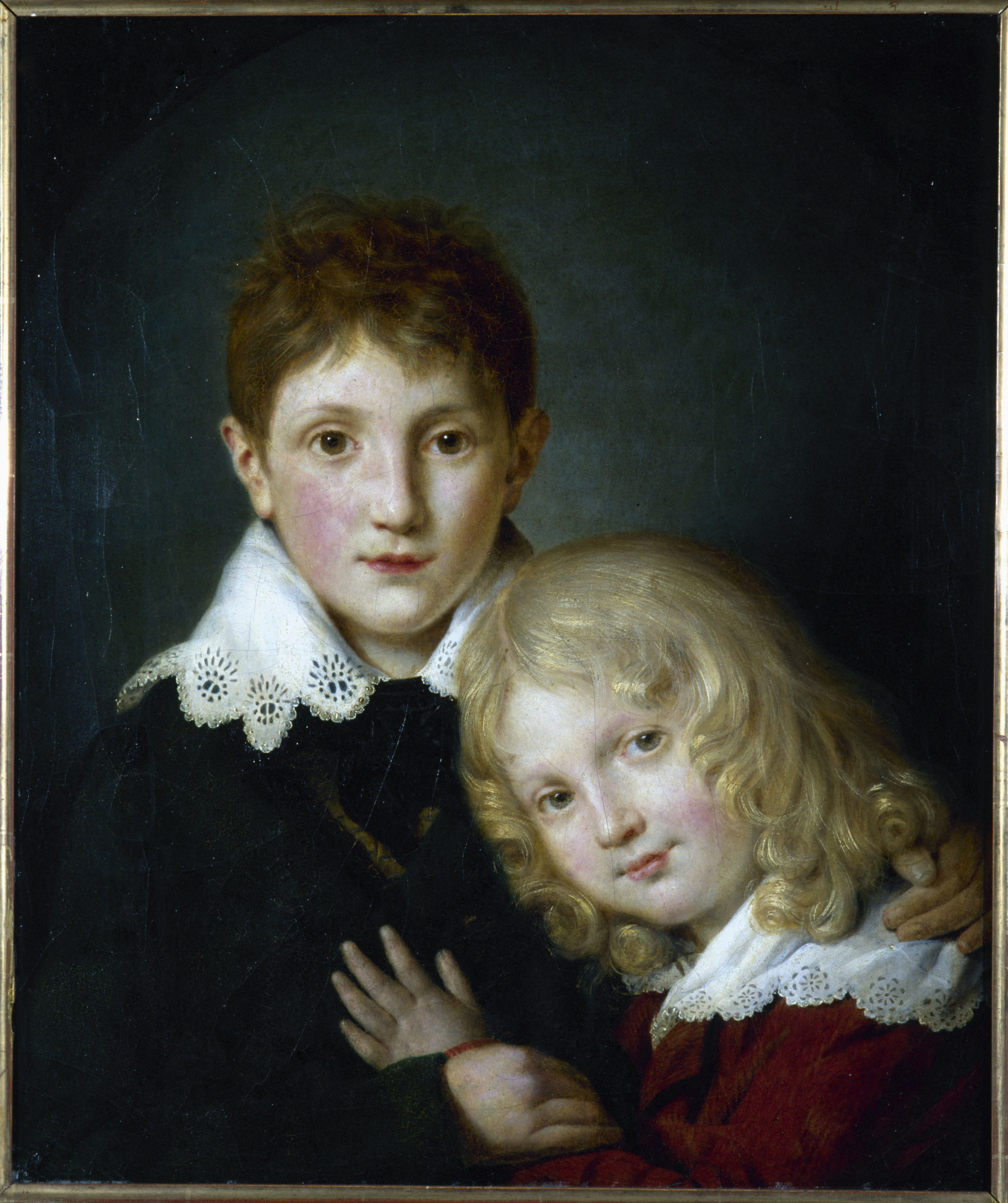 Left: Paul, age 11. Right: Alfred, age 5